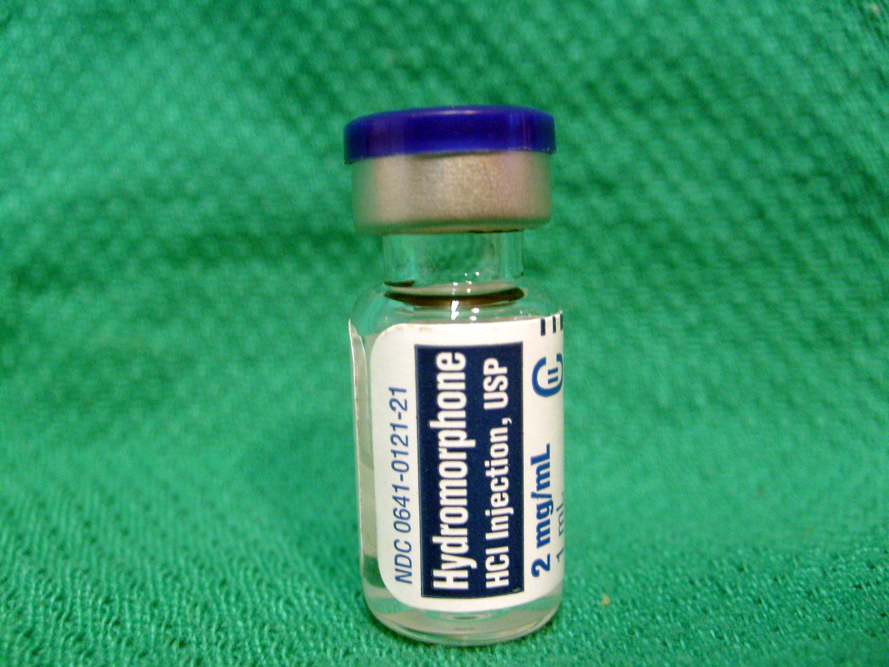 2mg vial of Hydromorphone hydrochloride (Dilaudid) manufactured by Baxter Healthcare.